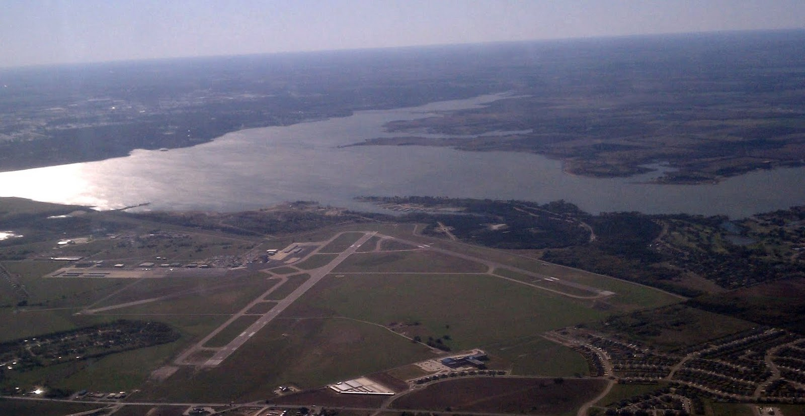 Waco Regional Airport and Lake Waco, taken from a Saab 340B